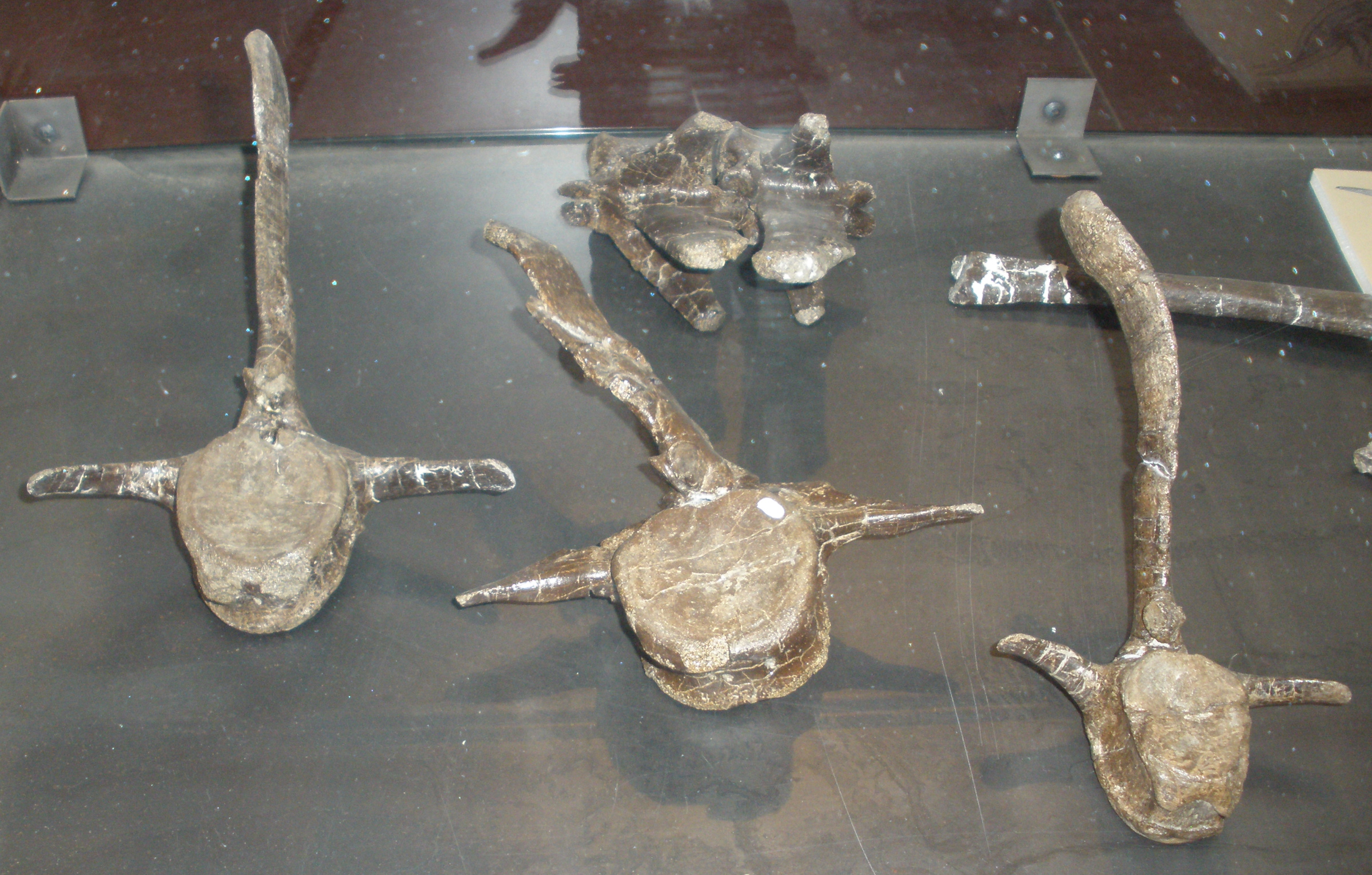 fossil vertebrae of Telmatosaurus transsylvanicus, an extinct hadrosaur